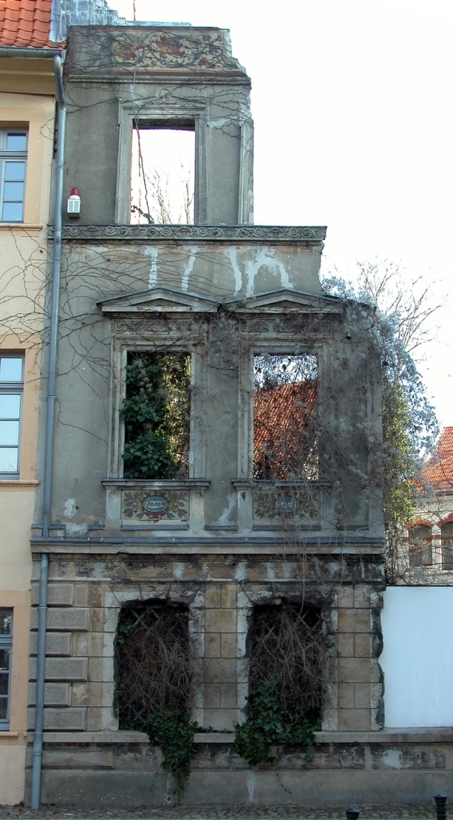 Brunswick, Germany: Ruins of the “Handelshof” Hotel, destroyed in World War II (picture taken in January 2006).